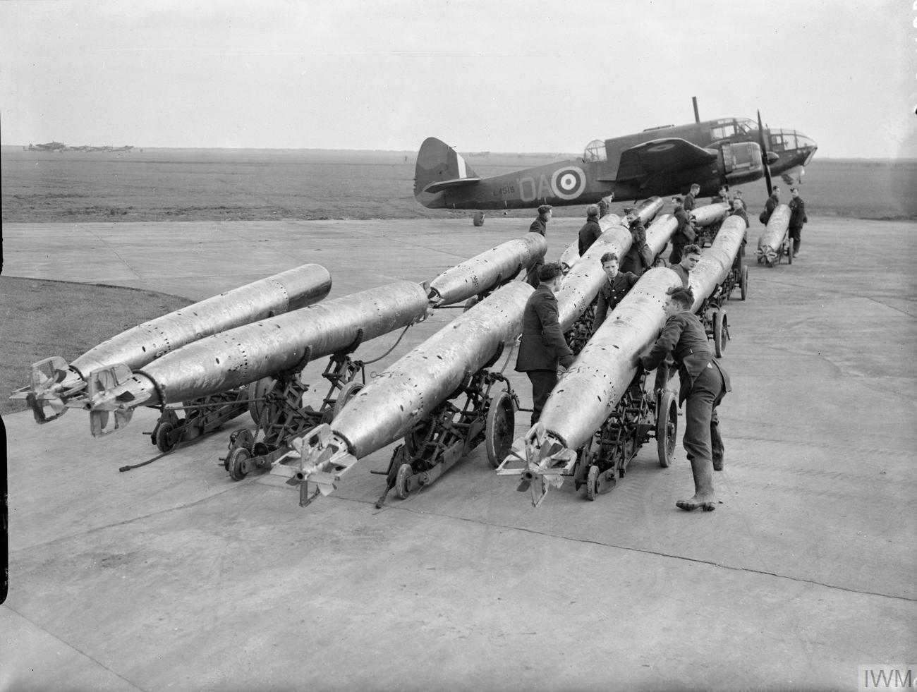 Royal Air Force Coastal Command, 1939-1945. Mark XI aerial torpedoes being taken out on trolleys towards a Bristol Beaufort Mark I, L4516 'OA-W', of No. 22 Squadron RAF at North Coates, Lincolnshire. Shortly after this photograph was taken, L4516 was destroyed when it stalled after a night take-off from North Coates and hit the ground near Marshfield, detonating the mine it was carrying.